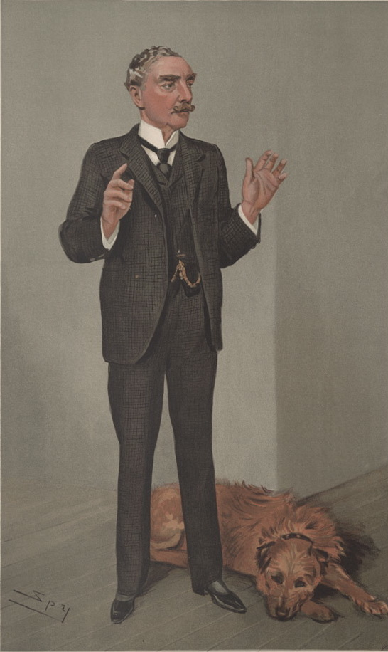 Men of the Day No.984: Caricature of Edward Richard Henry (1850-1931), later Baronet. Caption read "Finger Prints".